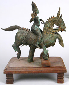 Lord Aiyanar on Horse. Lord Pavadairayan sits on the left of Lord Aiyanar.